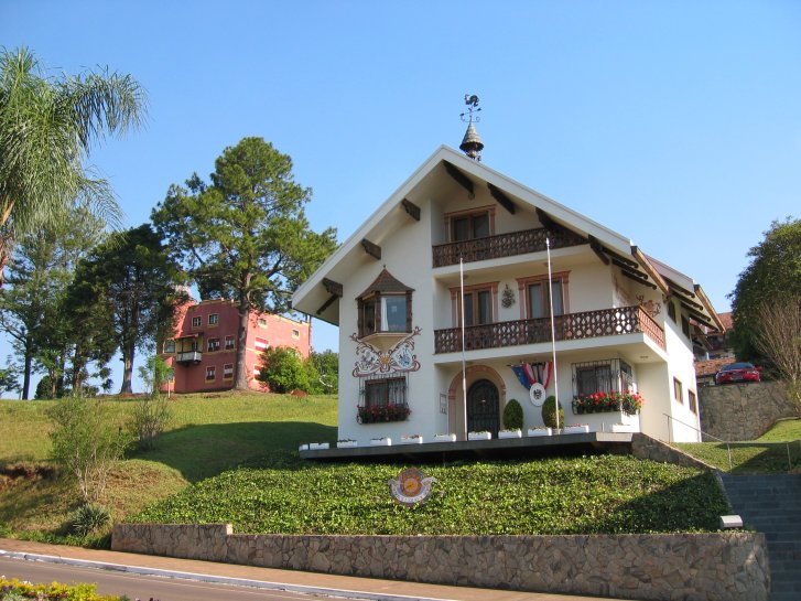 Treze Tílias - Dreizehnlinden, Honorary Counsel Representation Building of the Republic of Austria in the tyrolian village Treze Tílias in southern Brasil